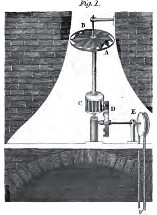 Drawing of a smoke-jack. SMOKE-JACK is an engine used for the same purpose as the common jack; and is so called from its being moved by means of the smoke, or rarefied air, ascending the chimney, and striking against the sails of the horizontal wheel AB (plate XII. fig. 1.), which being inclined to the horizon, is moved about the axis of the wheel, together with the pinion C, which carries the wheels D and E; and E carries the chain F, which turns the spit. The wheel AB should be placed in the narrow part of the chimney, where the motion of the smoke is swiftest, and where also the greatest part of it must strike upon the sails. --The force of this machine depends upon the draught of the chimney, and the strength of the fire. Smoke-jacks are sometimes moved by means of spiral flyers coiling about a vertical axle; and at other times by a vertical wheel with sails like the float-boards of a mill: but the above is the more customary construction.